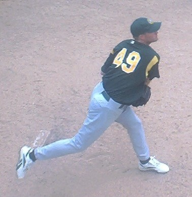 Tim Harikkala of the Oakland Athletics throws in the bullpen during spring training in 2005 in Tucson, Arizona.